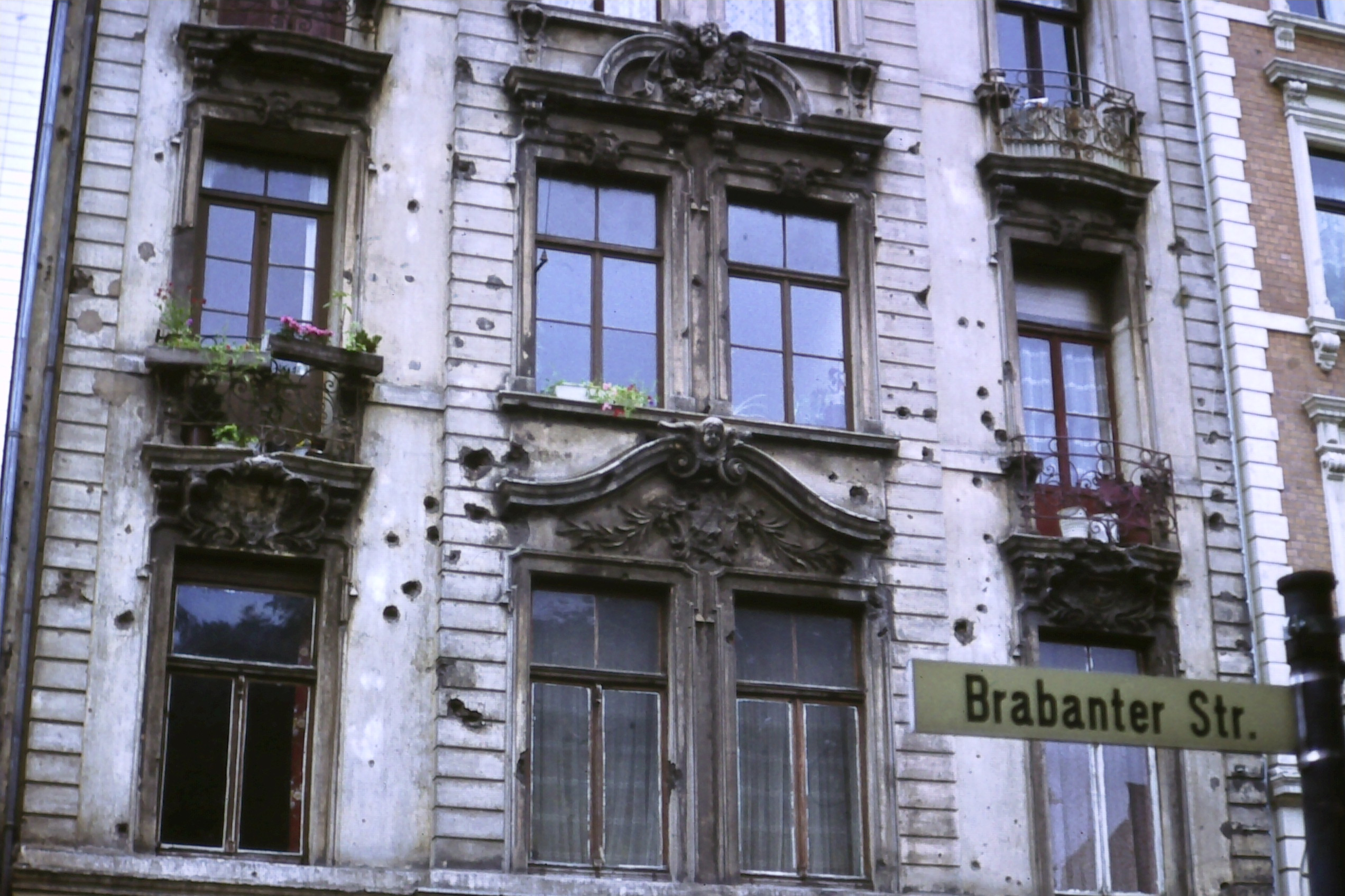 Wartime damage still visible in Cologne in 1984